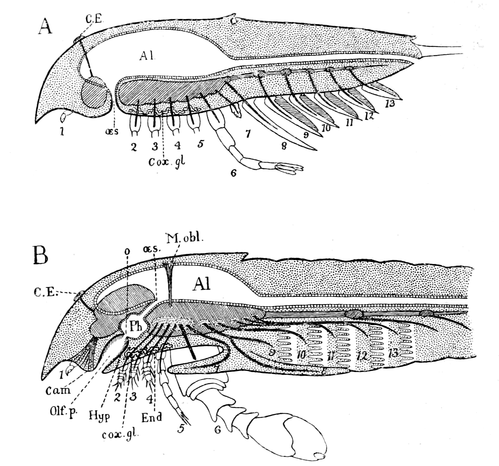 Fig. 105.—Diagram of Sagittal Median Section through A, Limulus, B, Eurypterus.